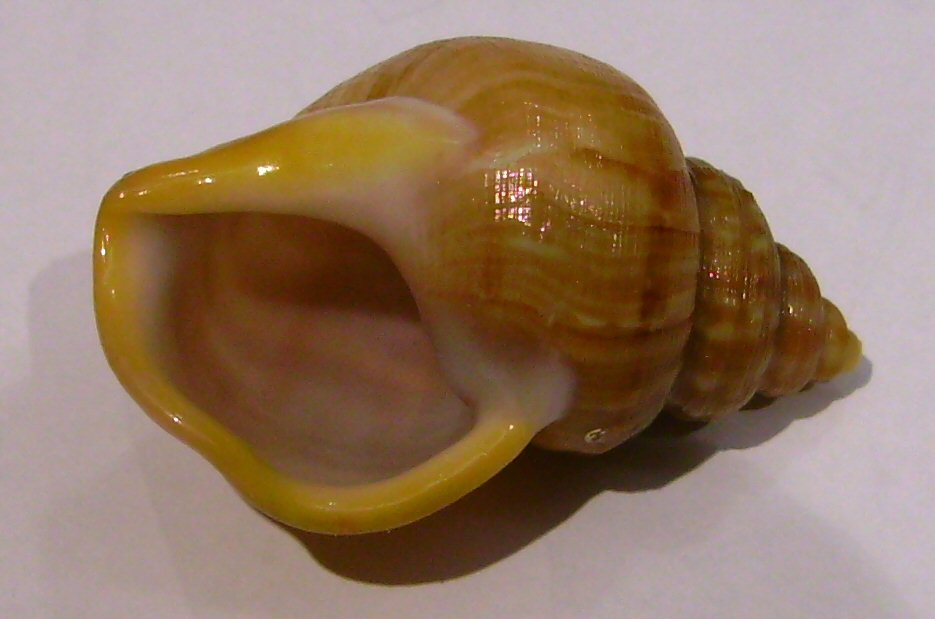 Struthiolaria vermis vermis (small ostrich foot) (base) dredged from Northland east coast, New Zealand. This work has been released into the public domain by its author, Graham Bould. This applies worldwide. In some countries this may not be legally possible; if so: Graham Bould grants anyone the right to use this work for any purpose, without any conditions, unless such conditions are required by law.